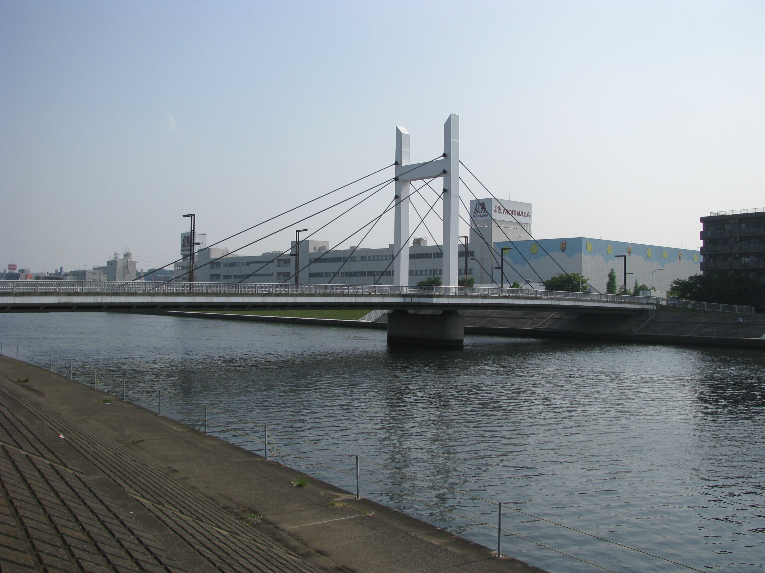 The Tsurumi factory of Morinaga & Company, Ltd. and the Morinaga bridge. This place is Simo-Sueyosi in Tsurumi-ku, Yokohama, Kanagawa, Japan.